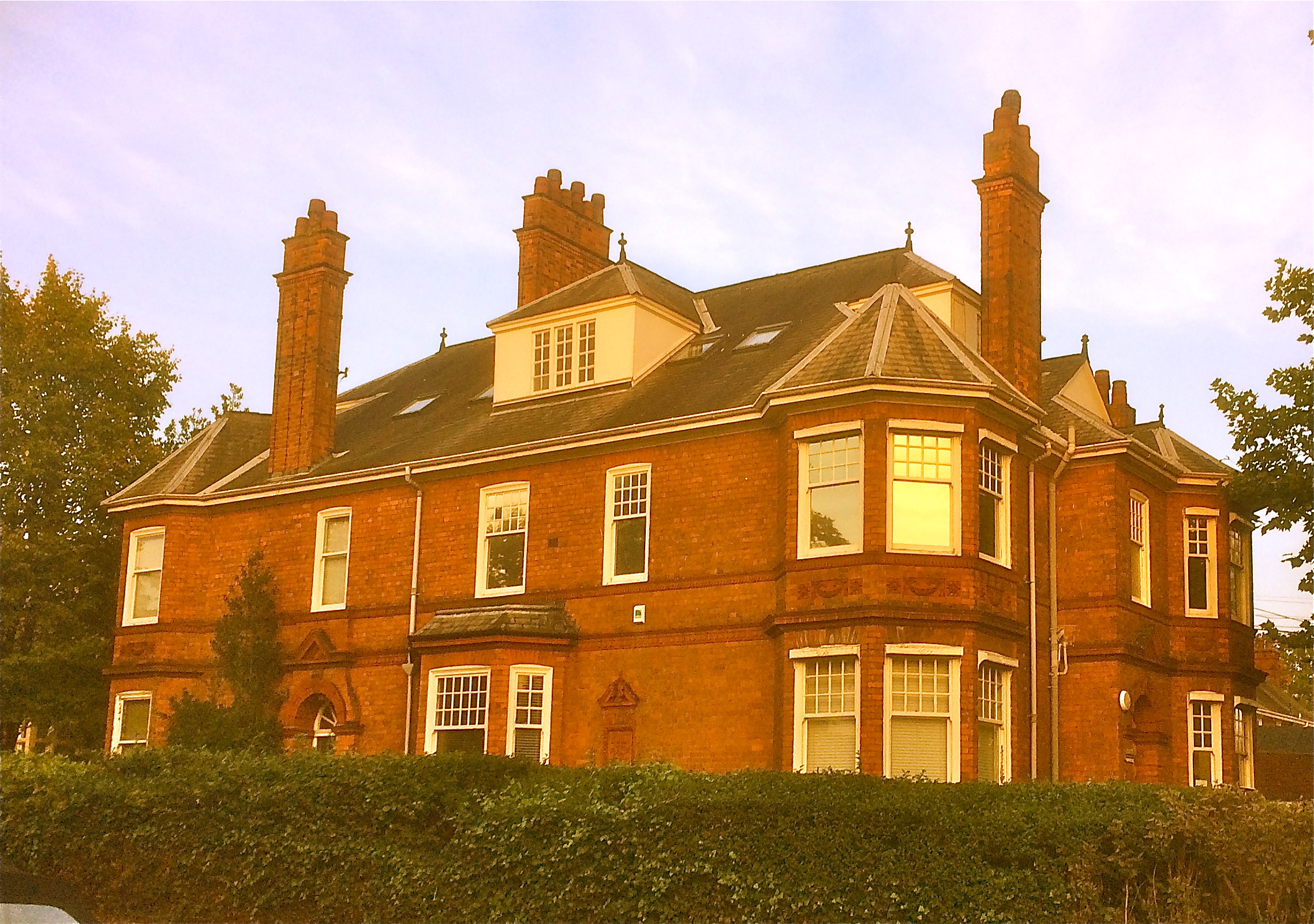 11-13 The Avenue, Lincoln. 1896